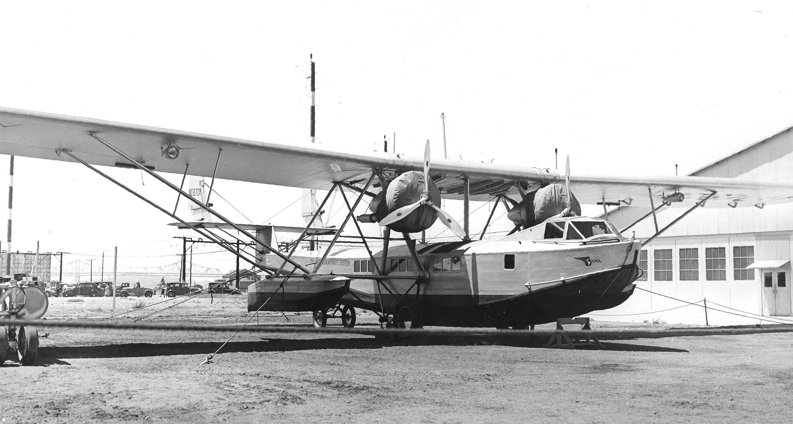 Pan American Airway's Consolidated "Commodore" (NC670M) at their Alameda base in 1937. The San Francisco-Oakland Bay Bridge can be seen in the background.